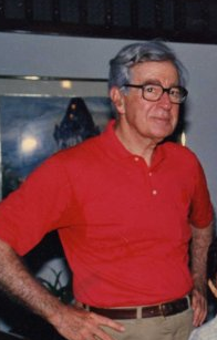 Picture of Virgilio Vargas